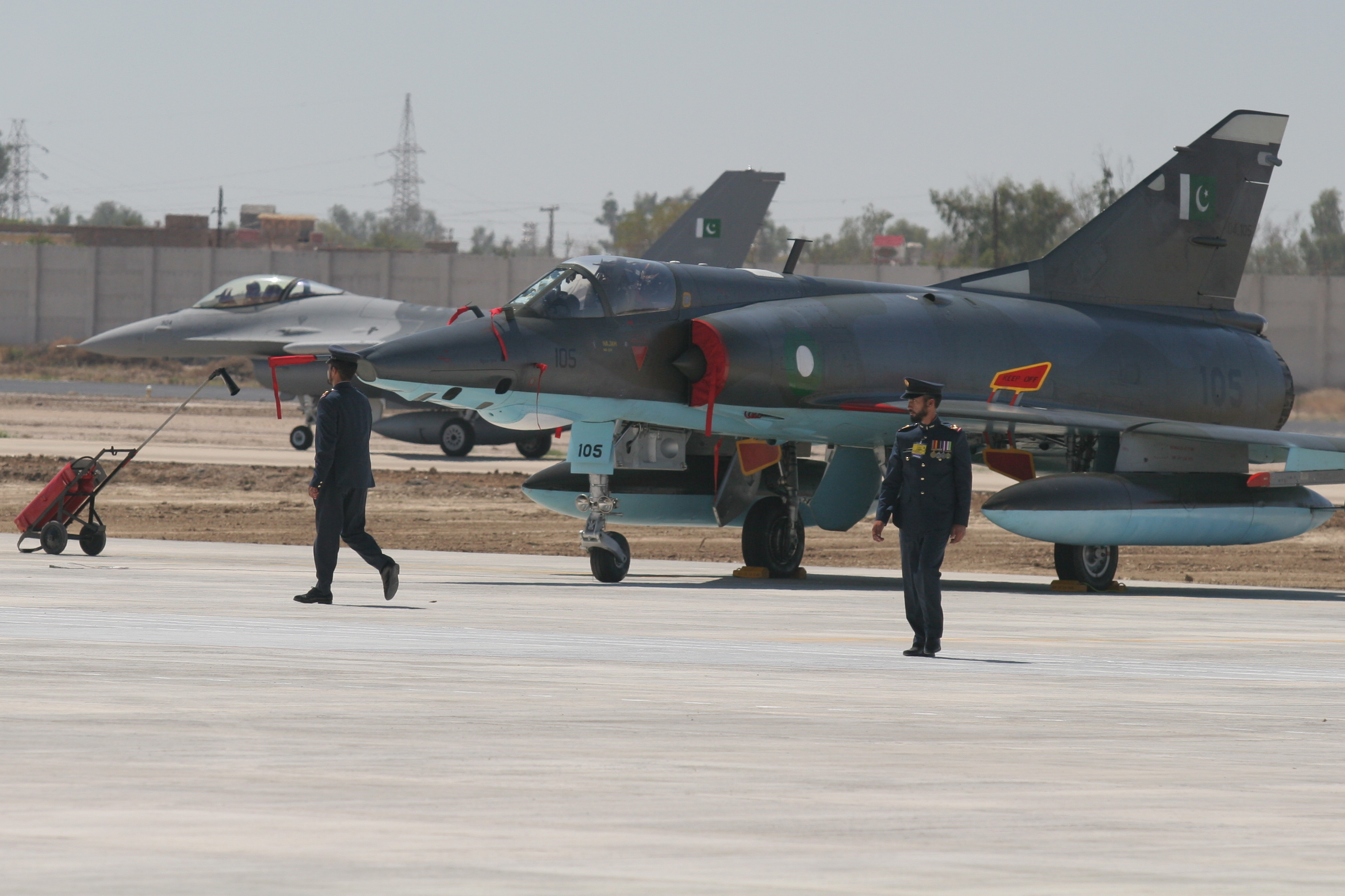 PAF re-equipping ceremony A Pakistani Air Force F-16 taxis past a Pakistan Air Force Mirage fighter jet on the runway at Pakistan Air Force Base Shahbaz near Jacobabad, Pakistan. The F-16s belongs to the new re-designated Squadron 5 and replaces the older Mirage aircraft. The Pakistan Air Force conducted a re-equipping ceremony on March 10 which was attended by Maj. Gen. Richard Shook, the Individual Mobilization Augmentee to Lt. Gen. Mike Hostage, U.S. Air Forces Central commander. (U.S. Air Force photo by Lt. Col. Michael Shavers)